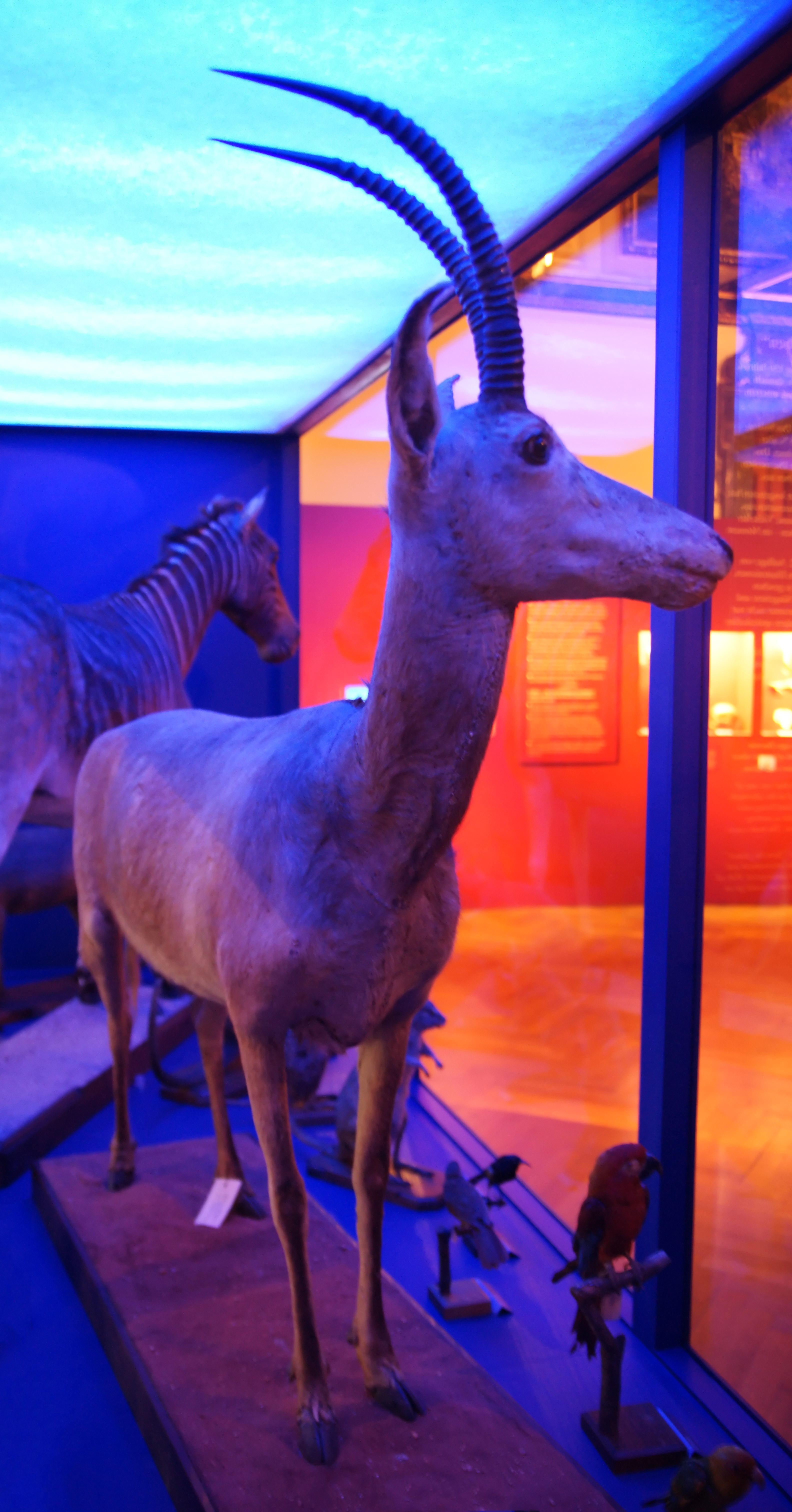 Bluebuck or Blue Antelope (Hippotragus leucophaeus), Naturhistorisches Museum Wien.